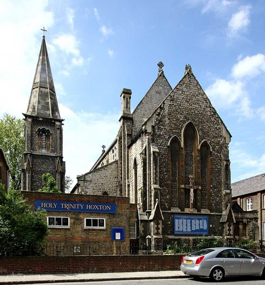 Holy Trinity Church, Shepherdess Walk, Hoxton, London N1